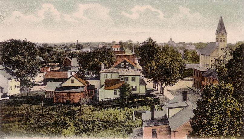 Bird's-eye View, Epping, NH; from a 1906 postcard.